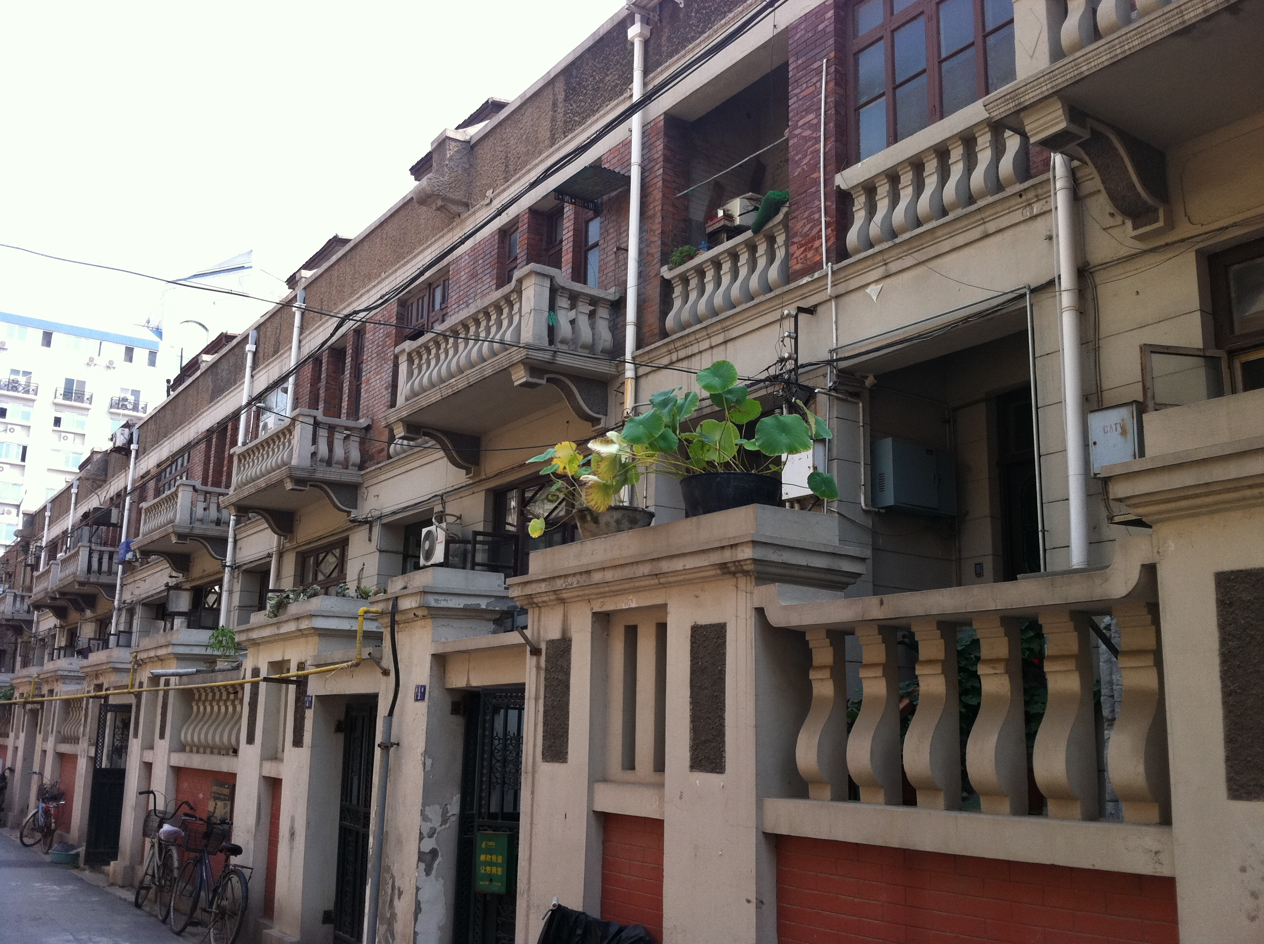 Xingua Lu Qingyun Quarter No. 2-18